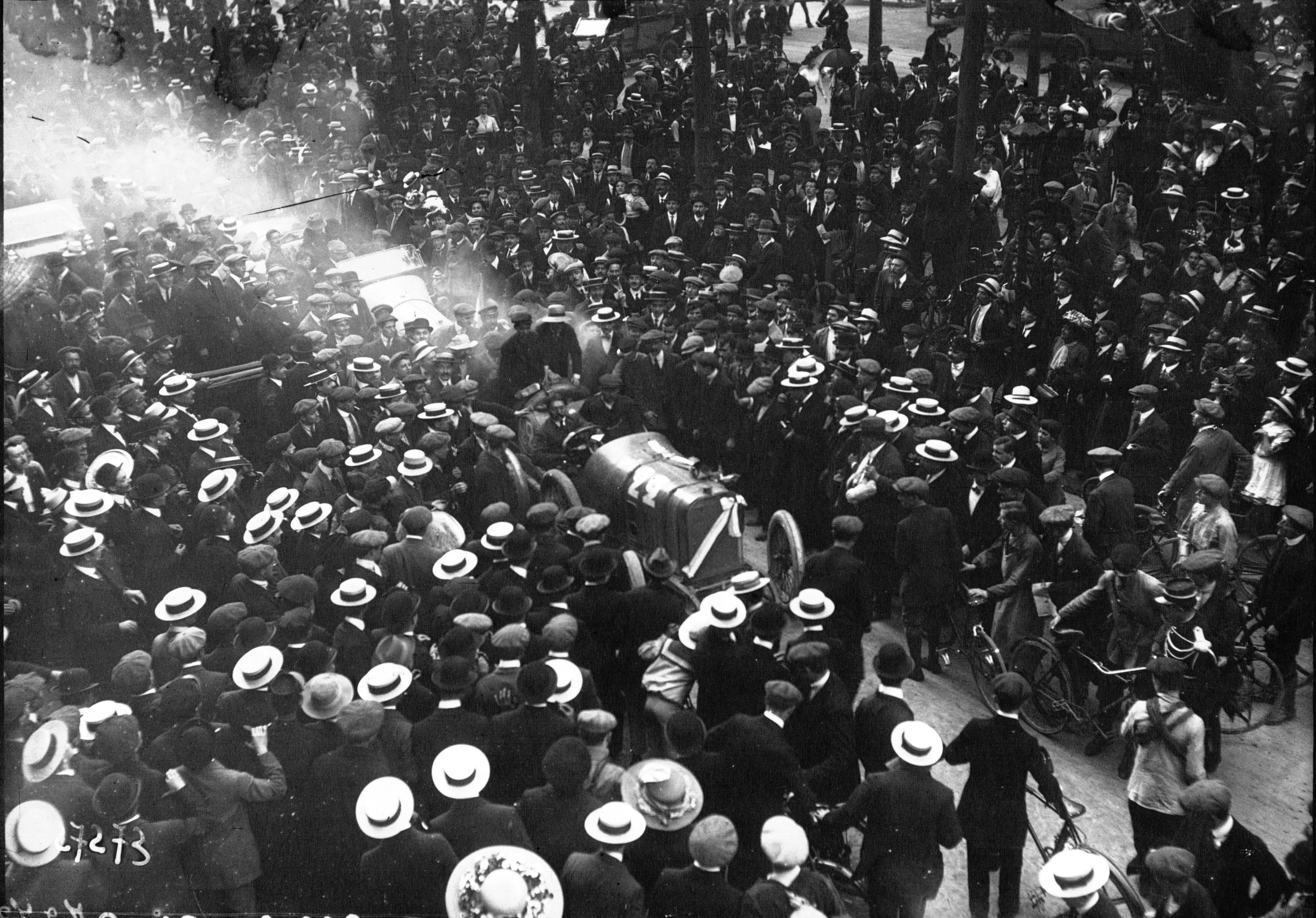 Georges Boillot in his Peugeot at the 1912 French Grand Prix at Dieppe.